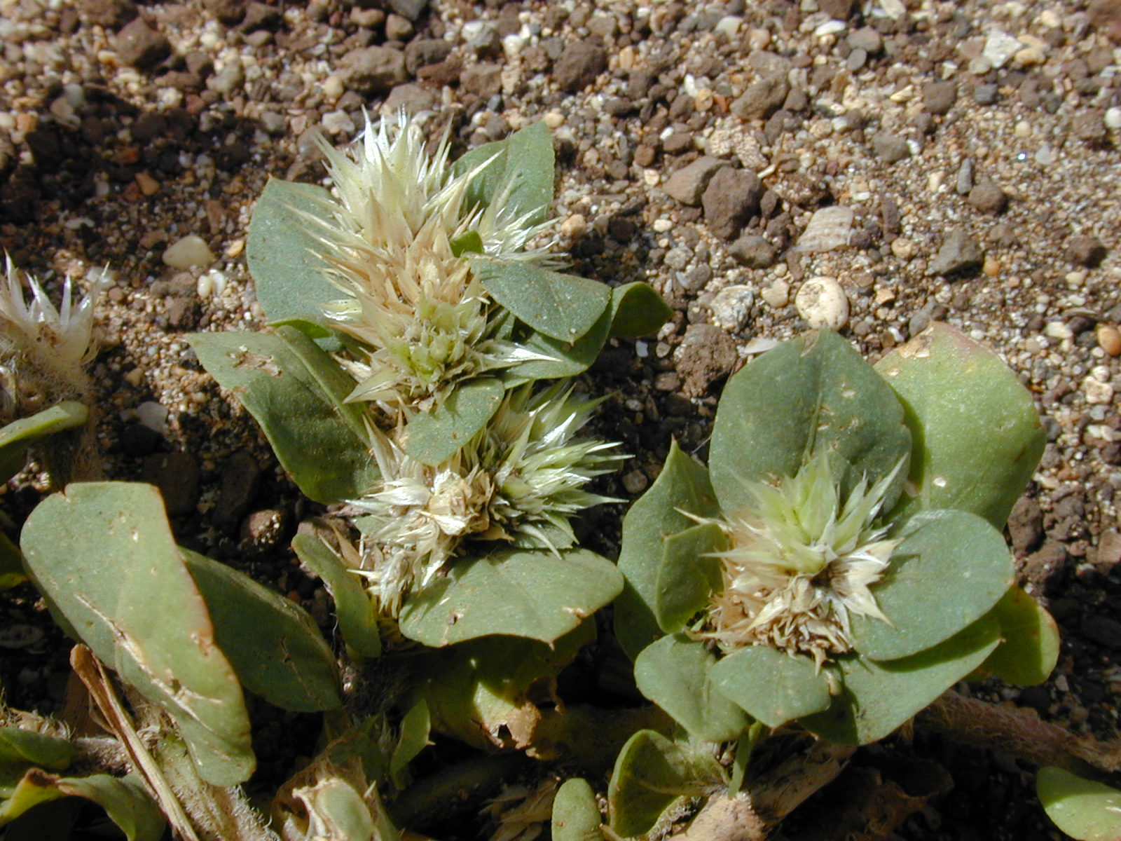 Alternanthera pungens (prickles). Location: Maui, Kalepolepo